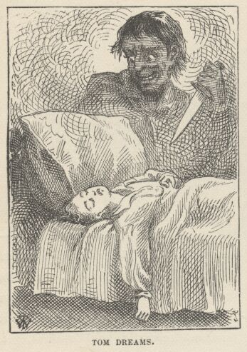 Illustrations de The Adventures of Tom Sawyer, 1876.